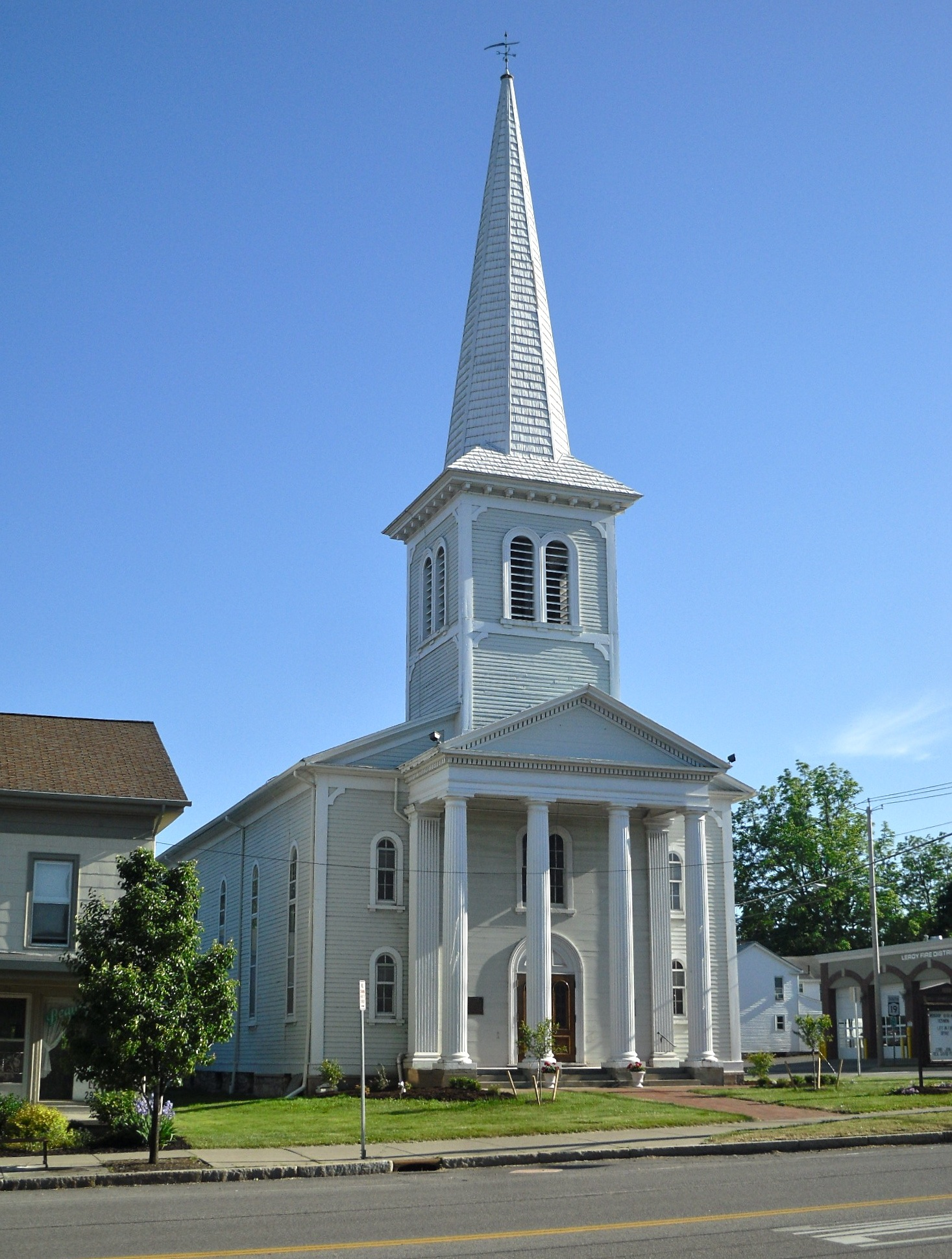 The former First Presbyterian Church of Le Roy (in Le Roy, New York), is listed on the U.S. National Register of Historic Places. At the time of the photo, it was in use as a Foursquare church.